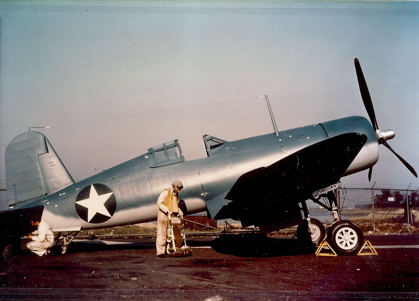 A Vought test pilot with a U.S. Navy Vought F4U-1 Corsair (BuNo 02172), parked at the Vought plant in Stratford, Connecticut (USA), in 1942.